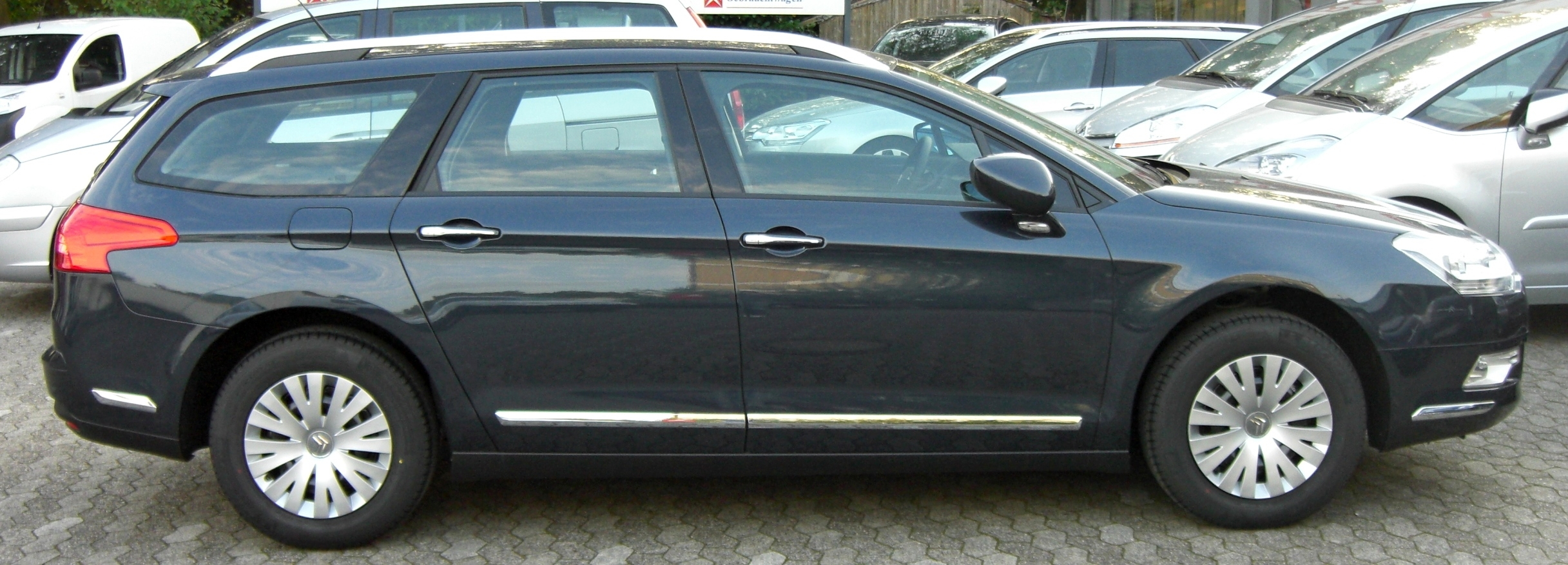 Citroën C5 Tourer